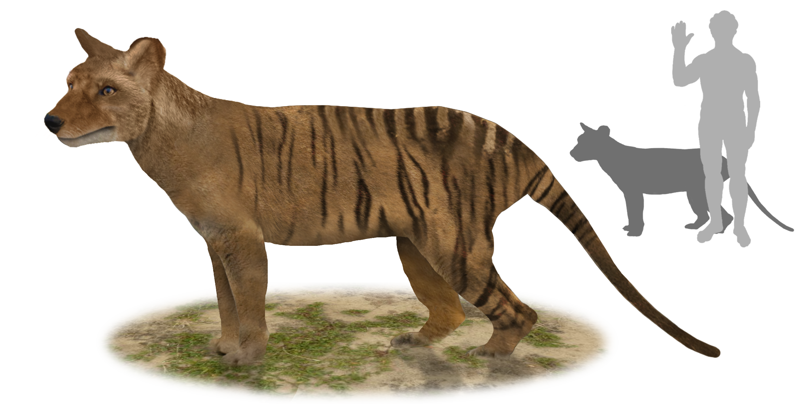 Artist's impression of a Thylacinus Potens.